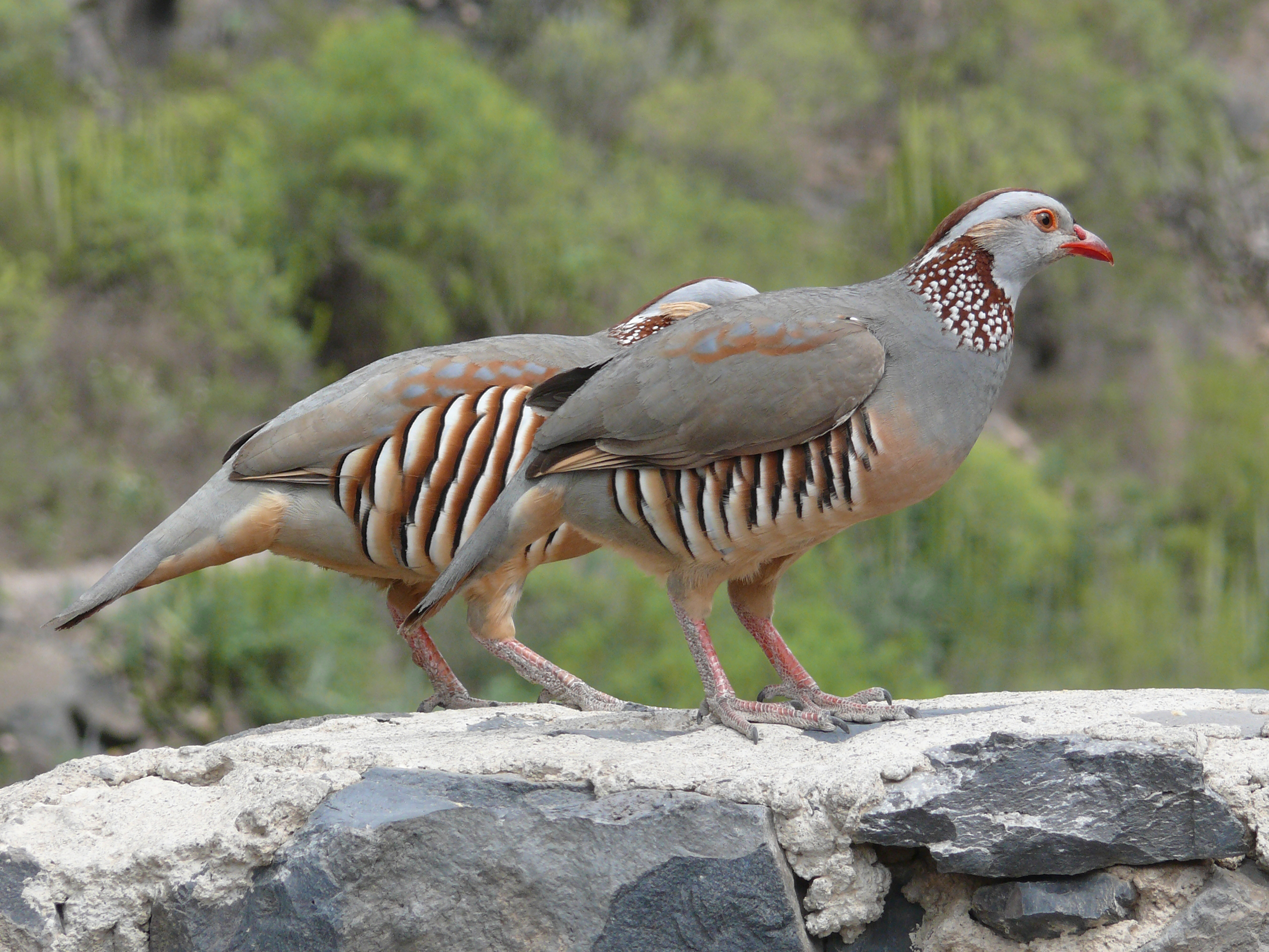 Barbary Partridges, Barranco del Infierno, Tenerife